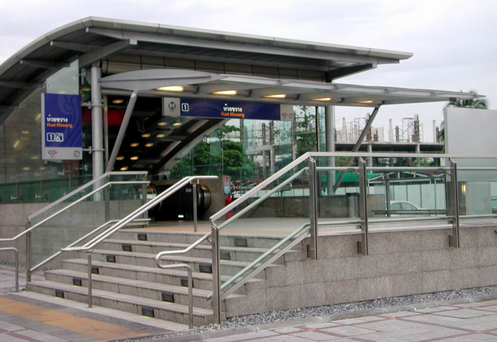 Entrance to the Huay Kwang station of the Bangkok subway system.